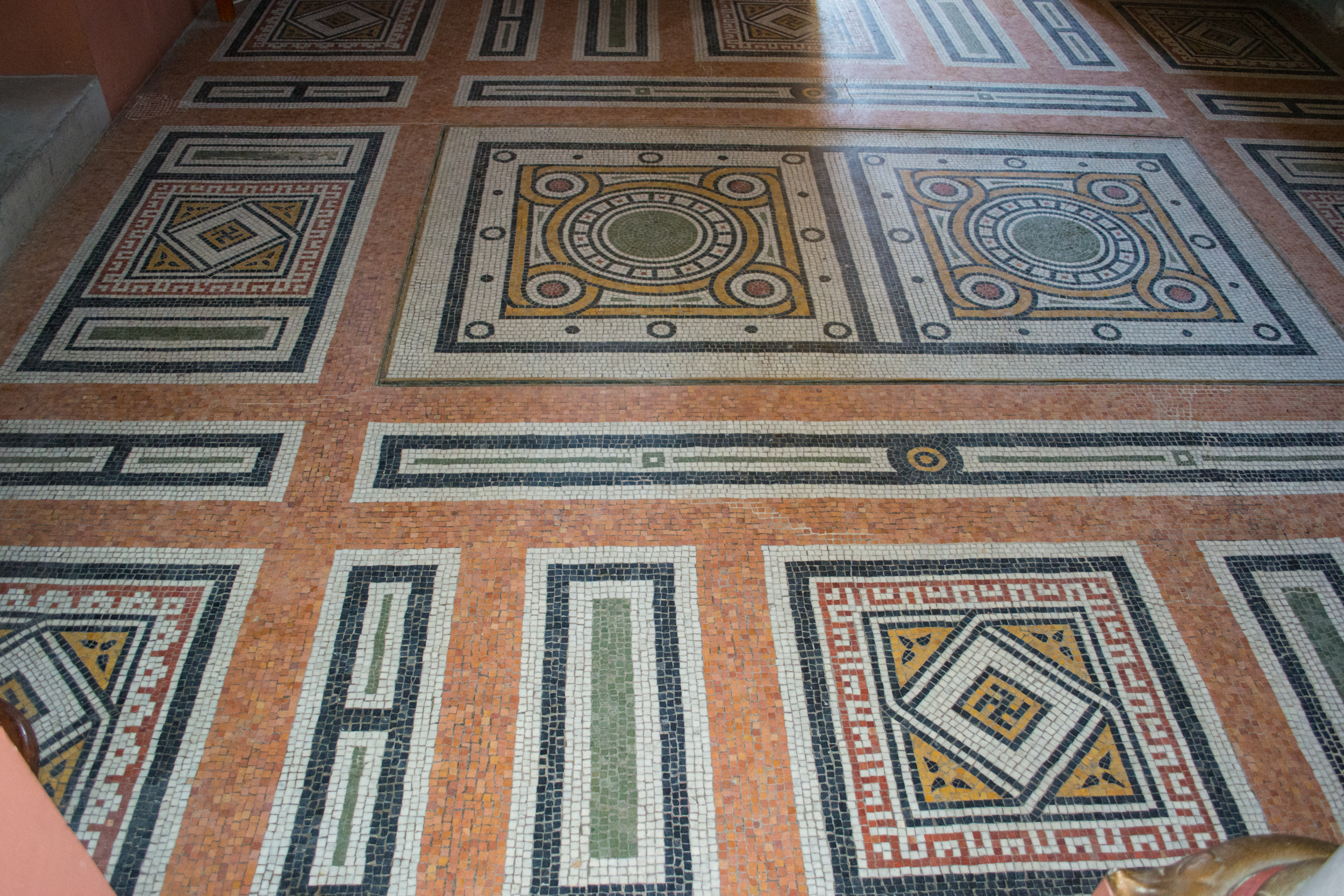 tile floor on gallery - Garfield Monument - Lake View Cemetery - 2015-04-04